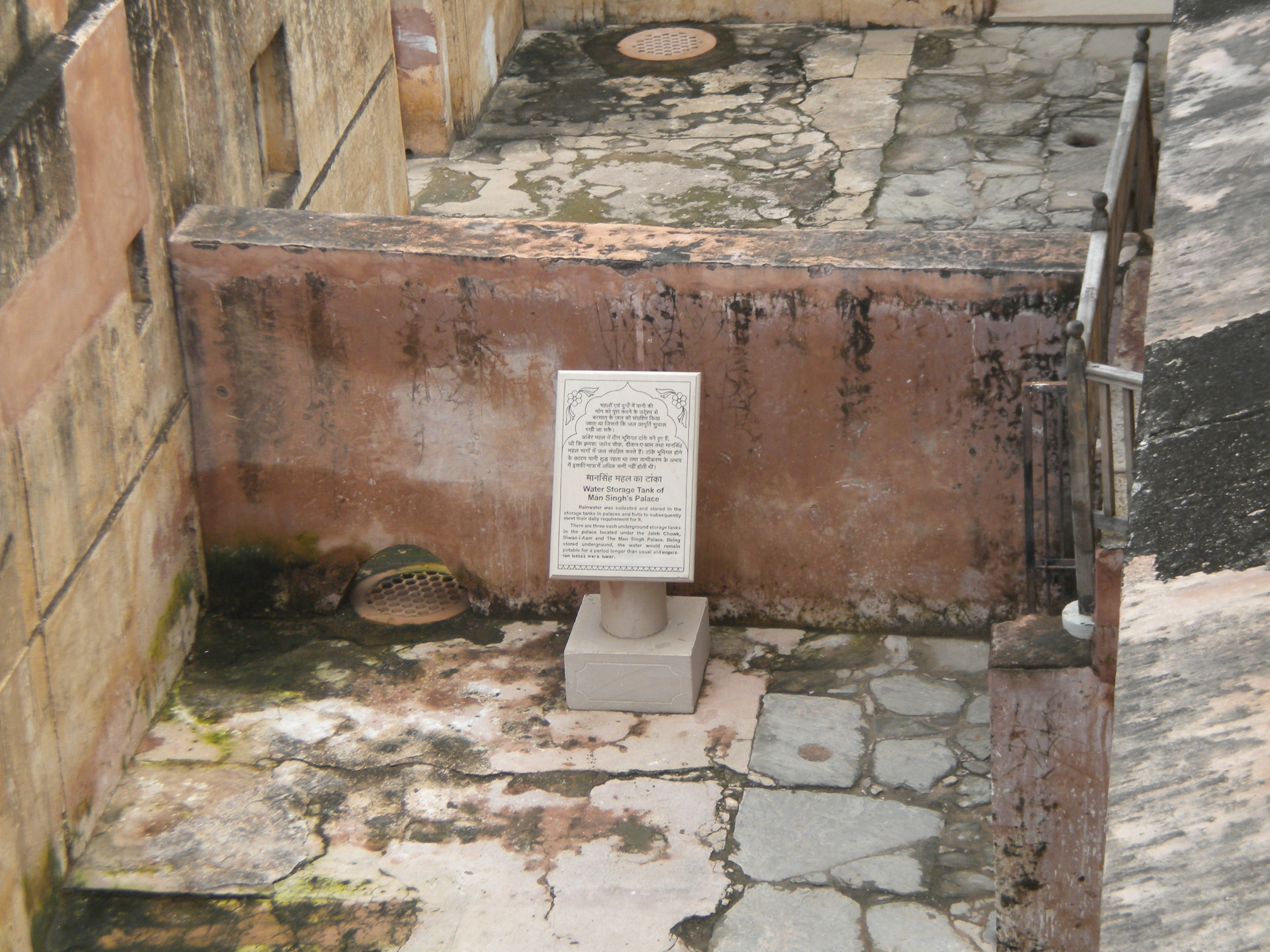 Water harvesting holes of underground rain-water storage tank of Man Singh Palace in Amber Fort